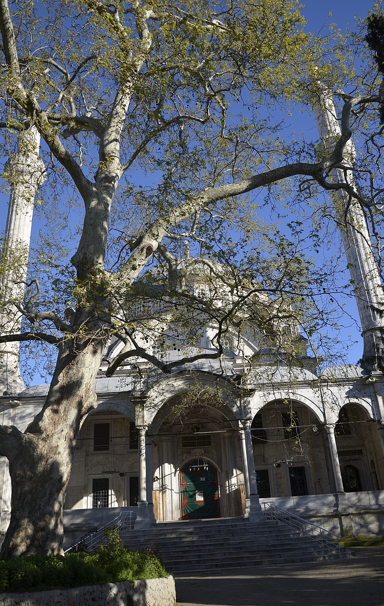 Büyük Selimiye Mosque in Üsküdar, Istanbul